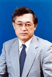 Takeshi Sasaki, President of the University of Tokyo, was inaugurated as Chairperson of the Meeting to Think about the Direct Election of the Prime Minister, Cabinet Secretariat on July 13, 2001.